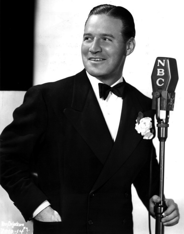 Photo of bandleader Horace Heidt.